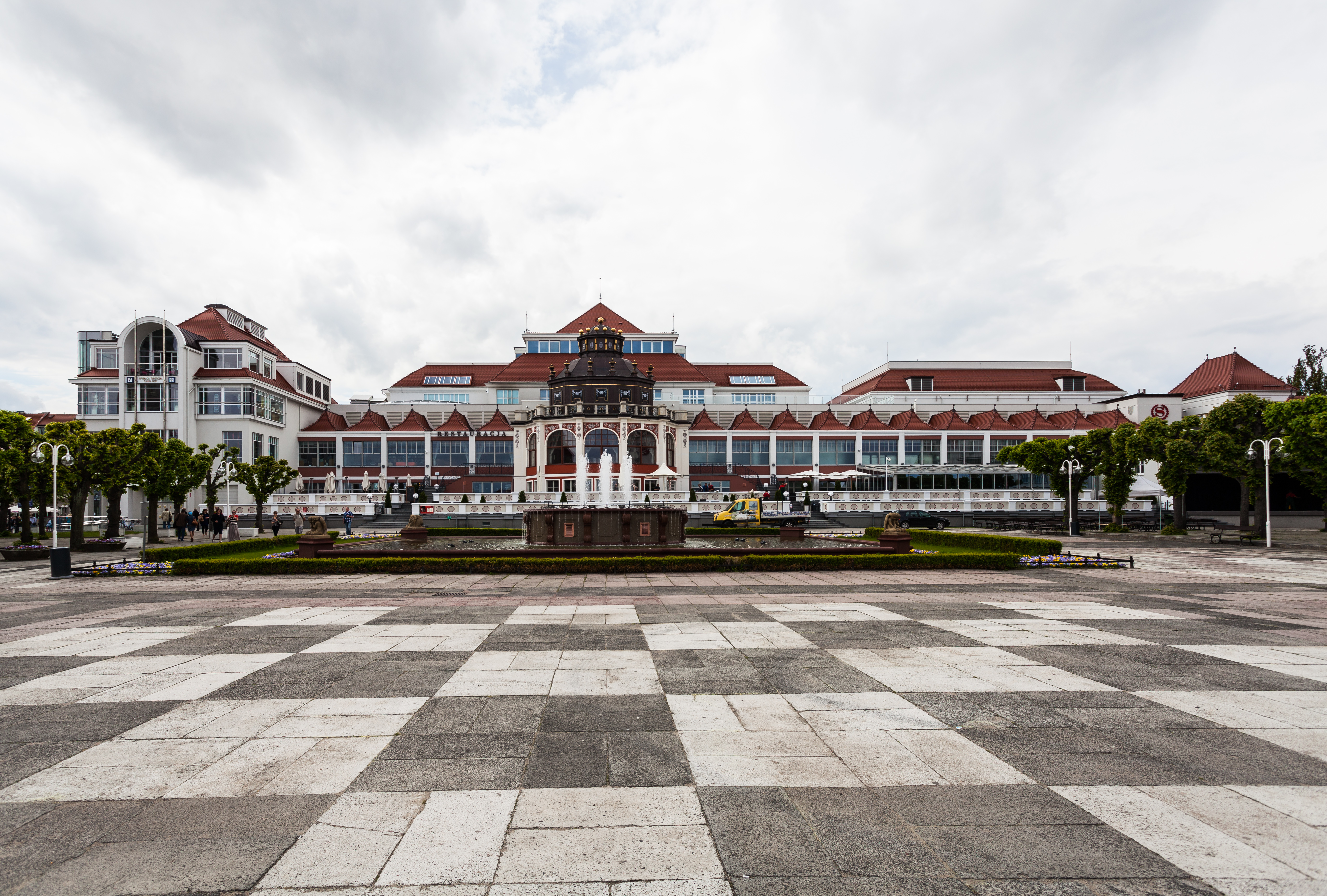 Sheraton Hotel, Sopot, Poland